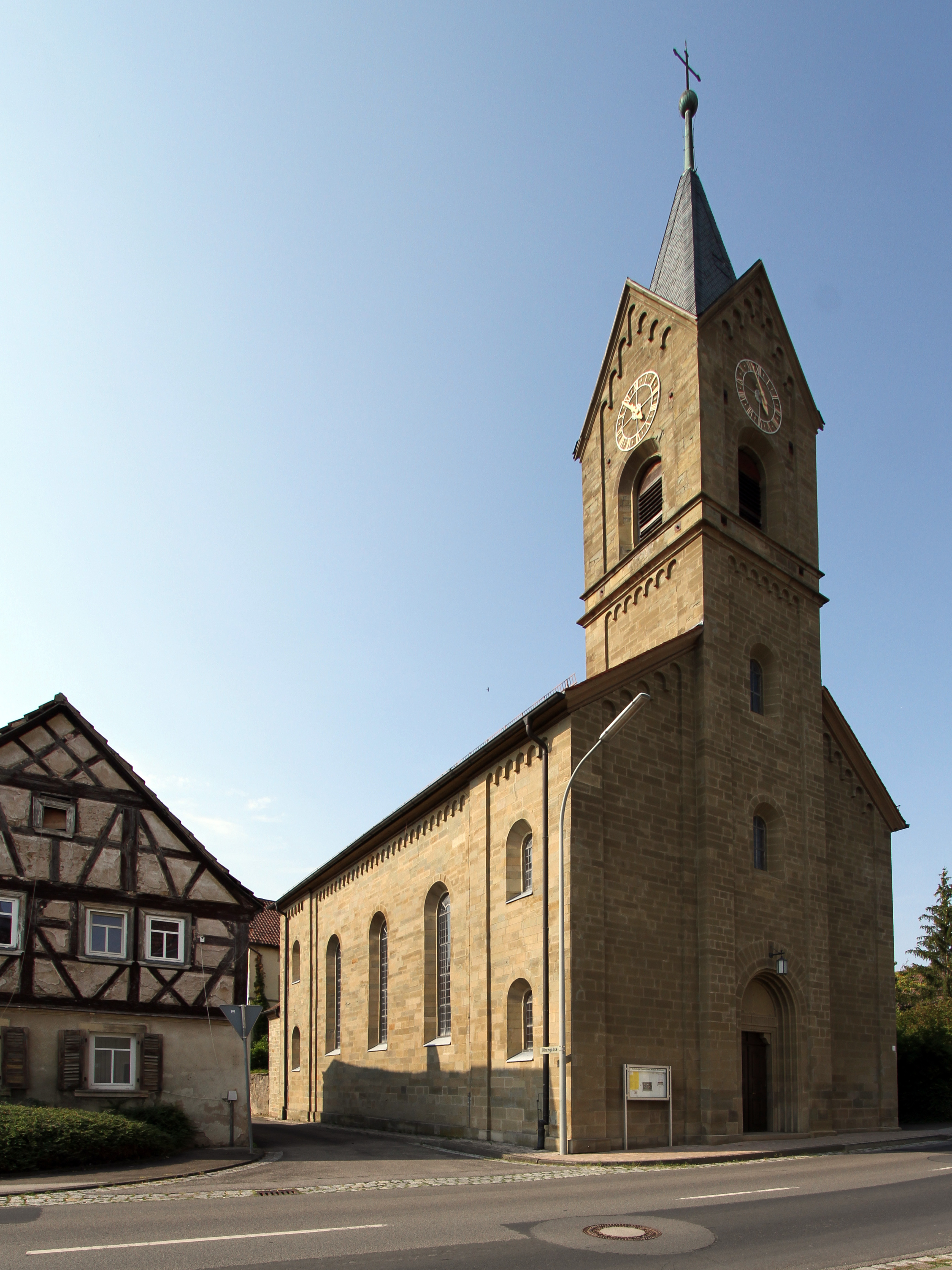 Church of St. Michael in Westheim (Knetzgau)